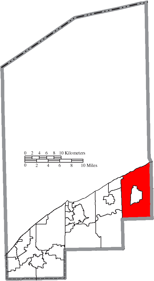 Map of the municipal and township boundaries of Lake County, Ohio, United States, as of the 2000 census, with the location of Madison Township highlighted. Township borders are shown only in unincorporated areas in order to differentiate incorporated and unincorporated areas more clearly.